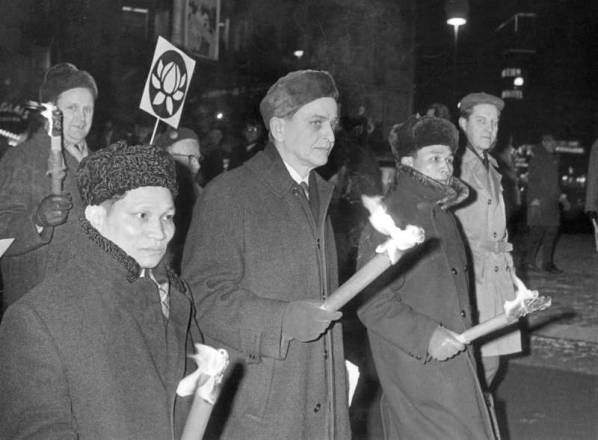 NLF-demonstration against the Vietnam War. Minister Olof Palme (second from left) participates in the torchlight procession together with North Vietnam's Moscow Ambassador Nguyen Tho Chan (far left). Both wearing fur caps.